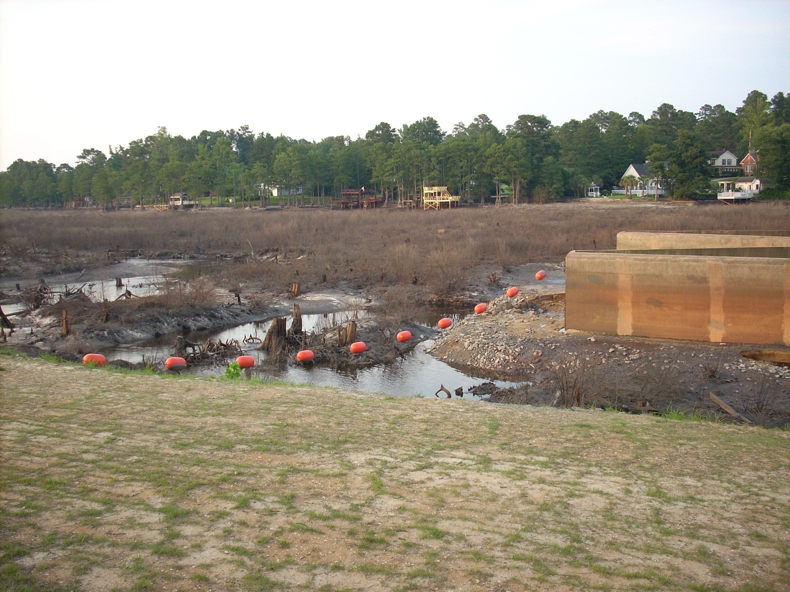 A picture of Hope Mills Lake drained, behind the Hope Mills Dam.